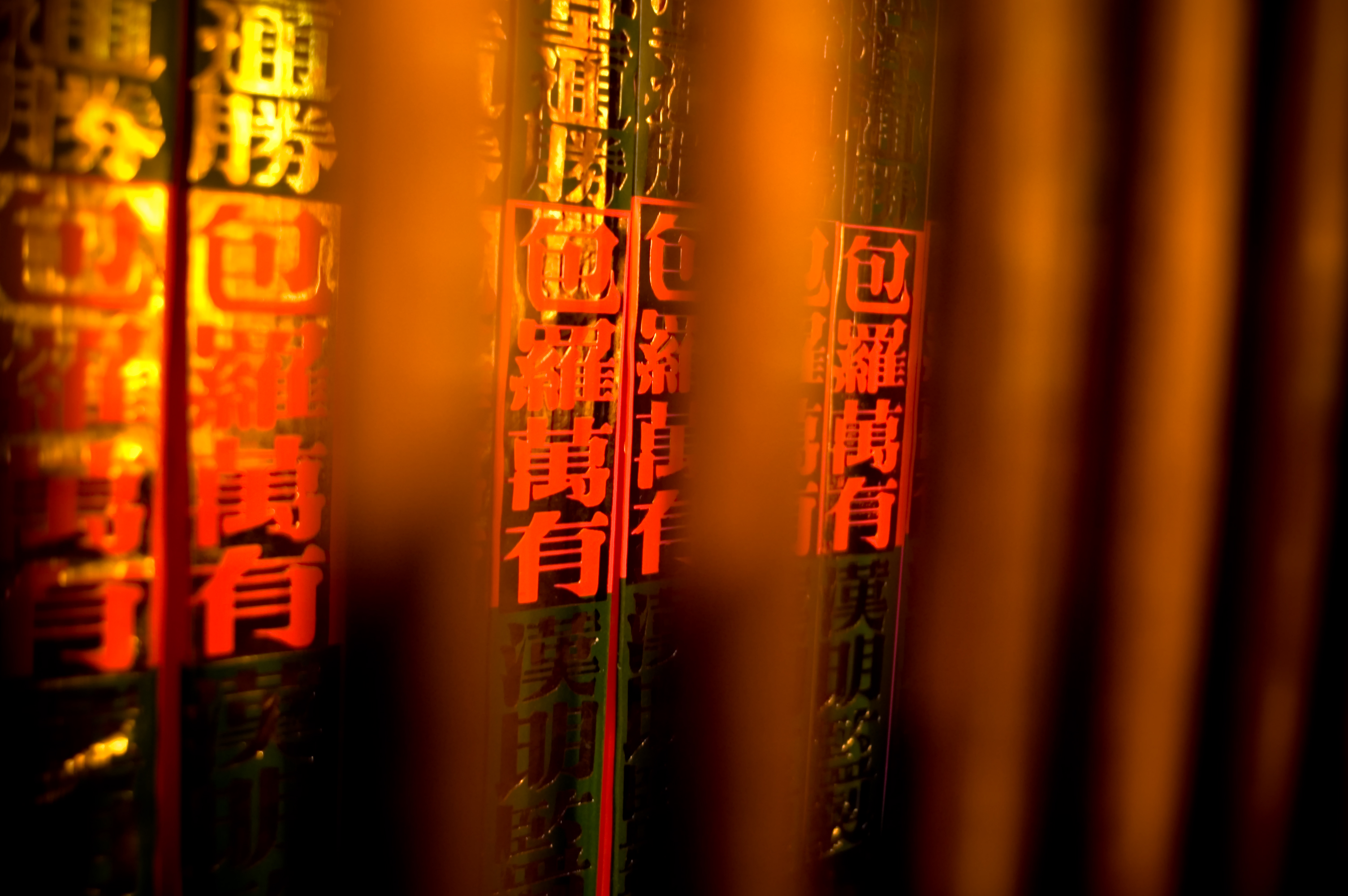 The famous Tung Shing (通勝) book.